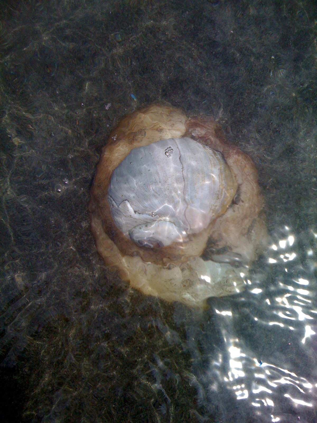 Neverita lewisii (Gould, 1847) (synonyms: Lunatia lewisii (Gould, 1847) and Euspira lewisii). I was wading in the water and saw a large spiral shell, so I tried to pick it up. It was hard to pick up, so I pulled harder--and this *stuff* came out of it and wrapped around my hand! I let go of the shell, then flipped it back over and took this photo.